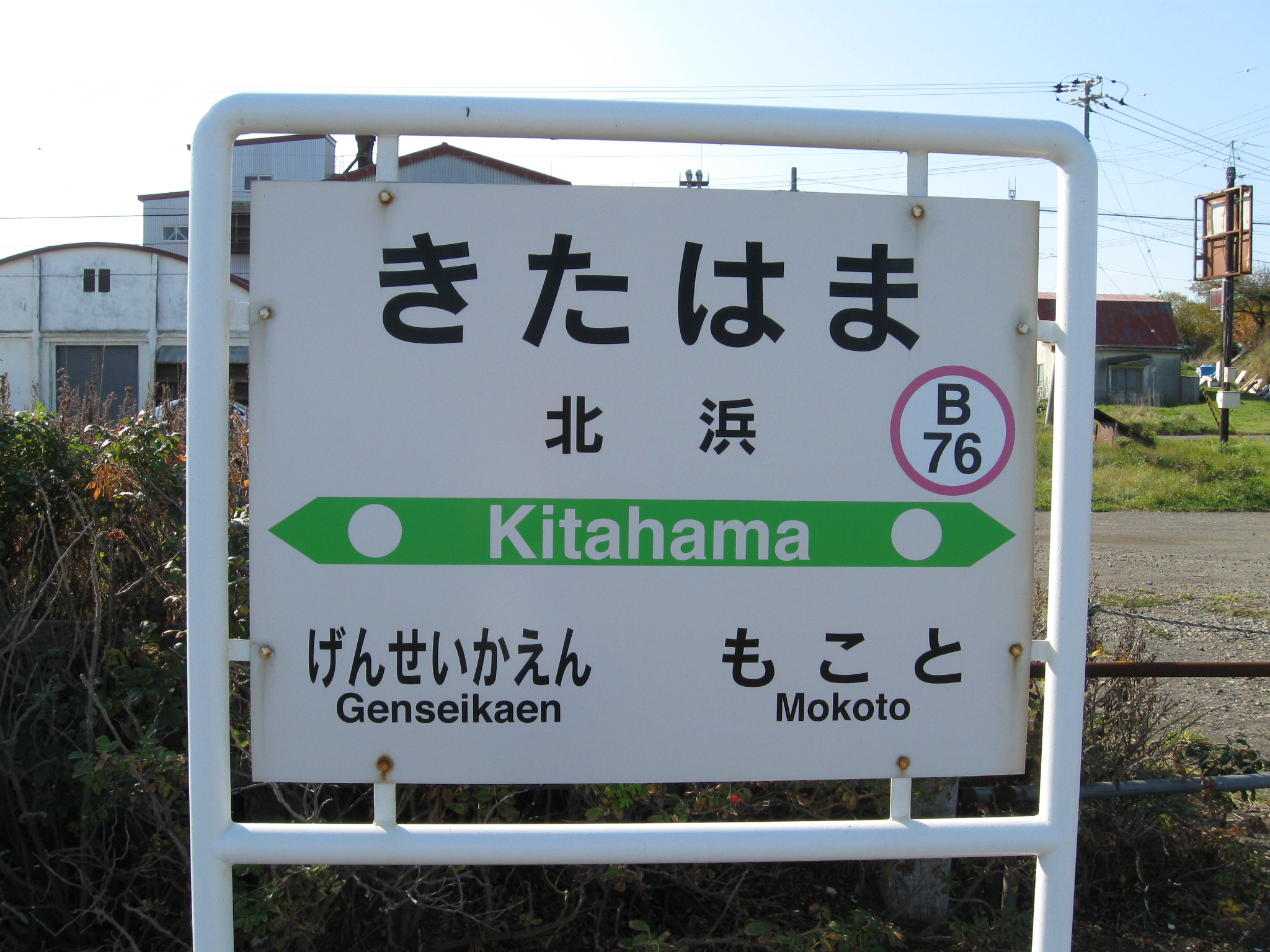 Standard sign. The station name is written in three script systems. At the top it is written in hiragana, in the middle in kanji, and in roman alphabet on the green arrowed line. At the very bottom, the names of the adjacent stations are given. B76 is the station number given to Kitahama by JR Hokkaido (the rail company).